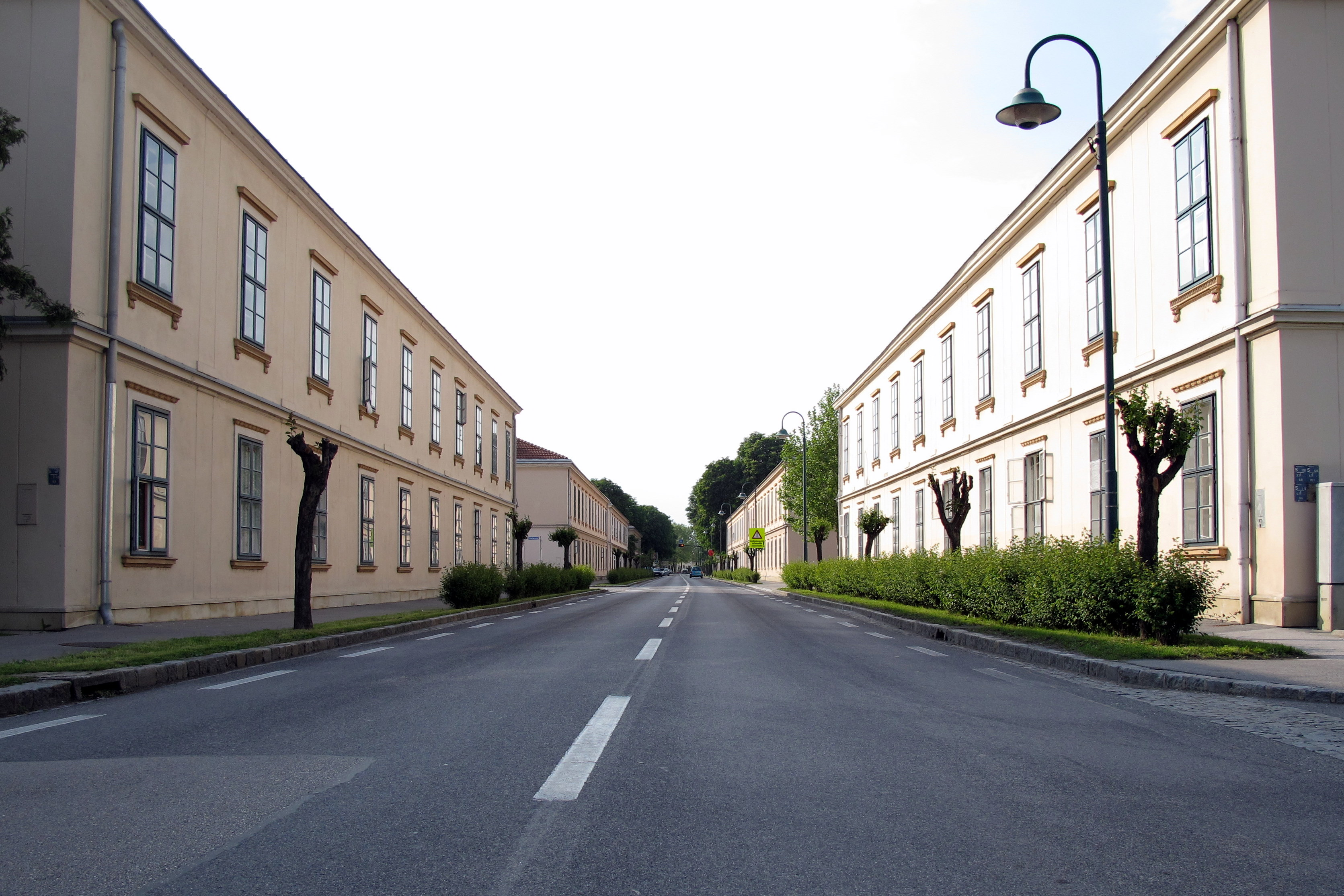 Former working class neighborhood in Marienthal Gramatneusiedl / District Wien-Umgebung / Lower Austria / Austria / EU, where Paul Lazarsfeld's study The unemployed of Marienthal conducted.